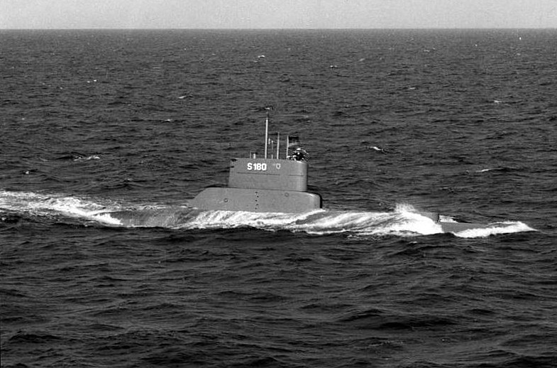 Information added by Wikimedia users.The U1 (S180) in 1967, a Type 205 submarine